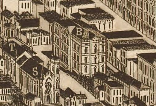 The Old Customs House (B) in Knoxville, Tennessee, USA, as it appeared in 1886. Letters "T" and "S" on the lower left are the Methodist Episcopal Church and the Methodist Episcopal Church, South, respectively.